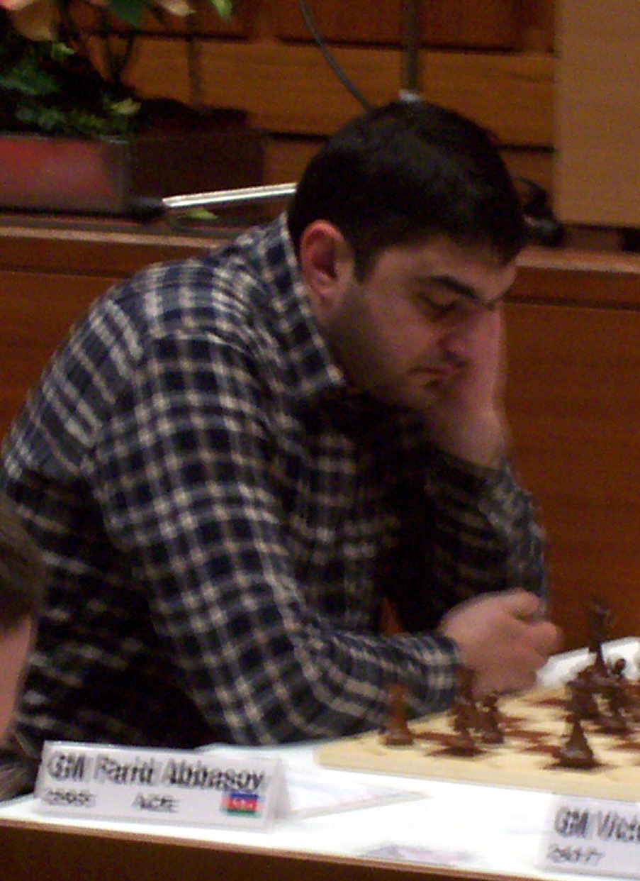 Farid Abbasov, Azerbaijan chess grandmaster